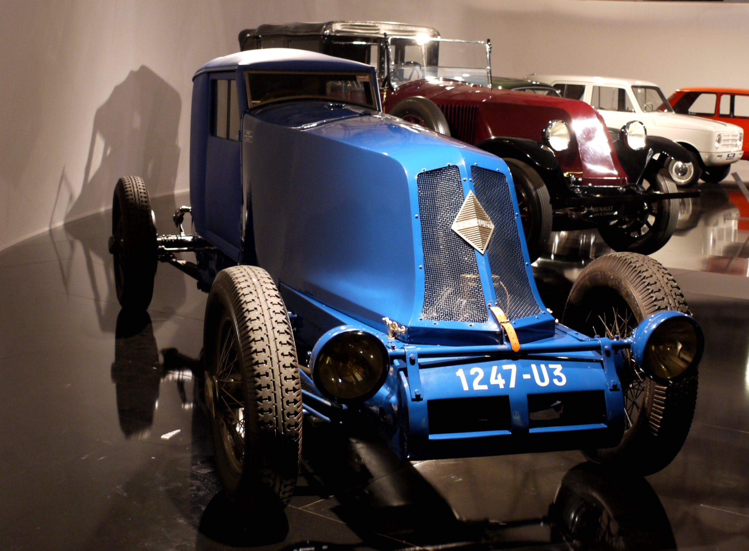 1926 Renault 40 CV "des records" Type NM. Spec.: - 6 cyl. - 9120 cc - Approx. 140 bhp - Top speed: approx. 200 Km/h (124 mph) - Rear-wheel transmission - 4-speed manual gearbox